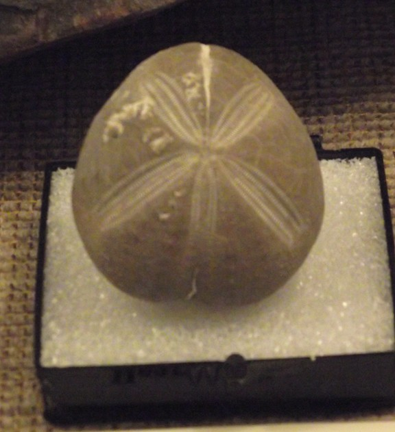 Palhemiaster comanchei fossil on display at the San Diego County Fair, California, USA.